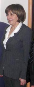 Mrs. Rowena Cross-Najafi, Public Affairs Officer, Dr. Tamar Shioshvili, Head of Department of Humanitarian Studies, Mrs. Tefft, Dr. Giuli Alasania, Vice Rector of International Black Sea University.